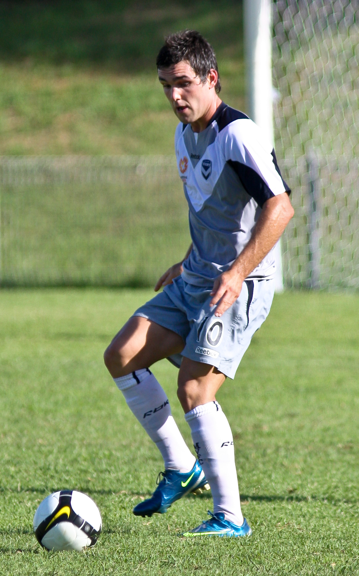 Nathan Elasi playing for the Melbourne Victory youth team.